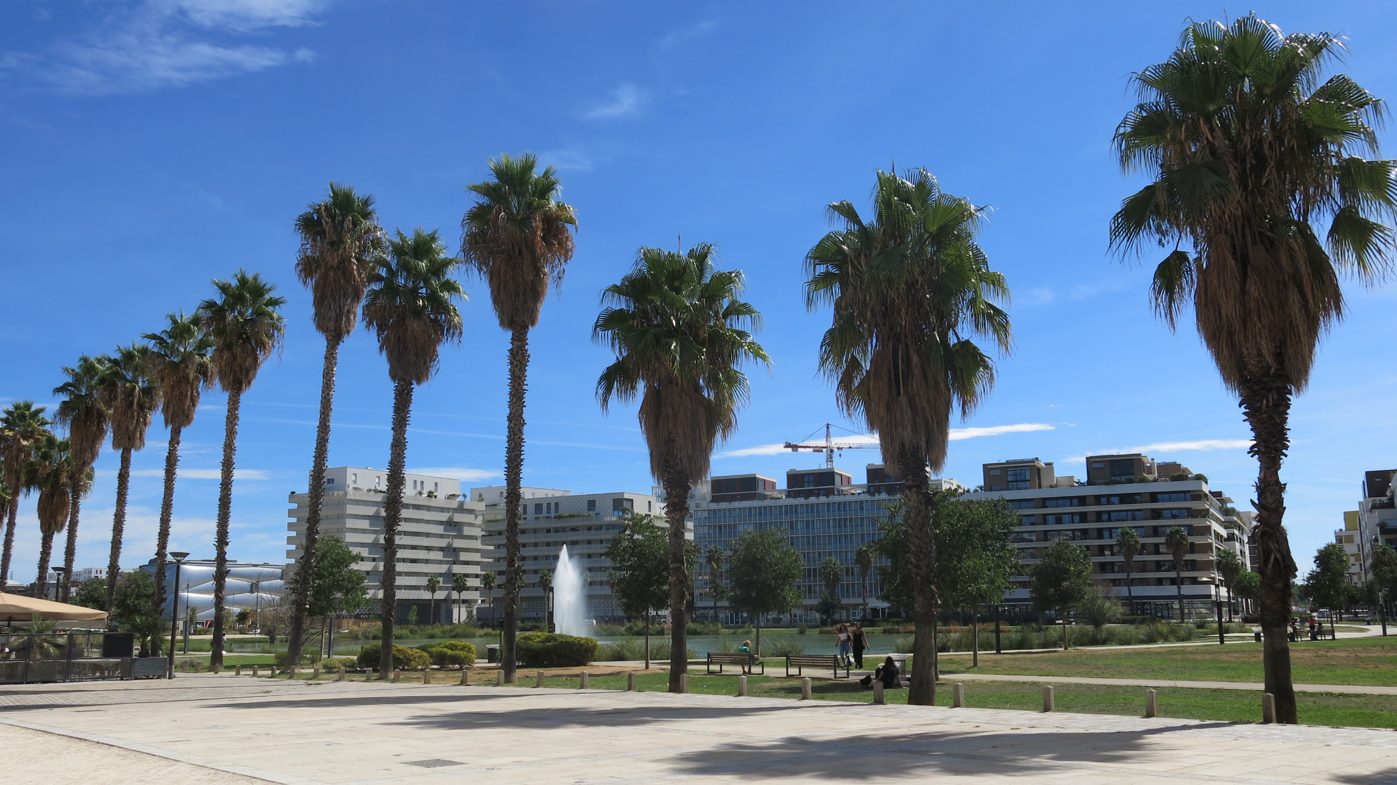 Port Marianne